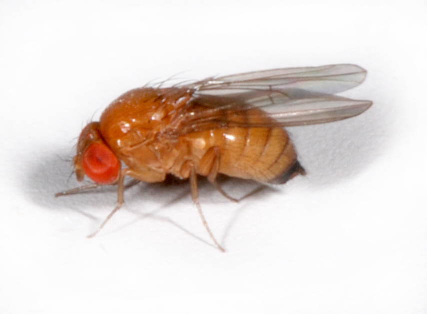 Drosophila suzukii female. California